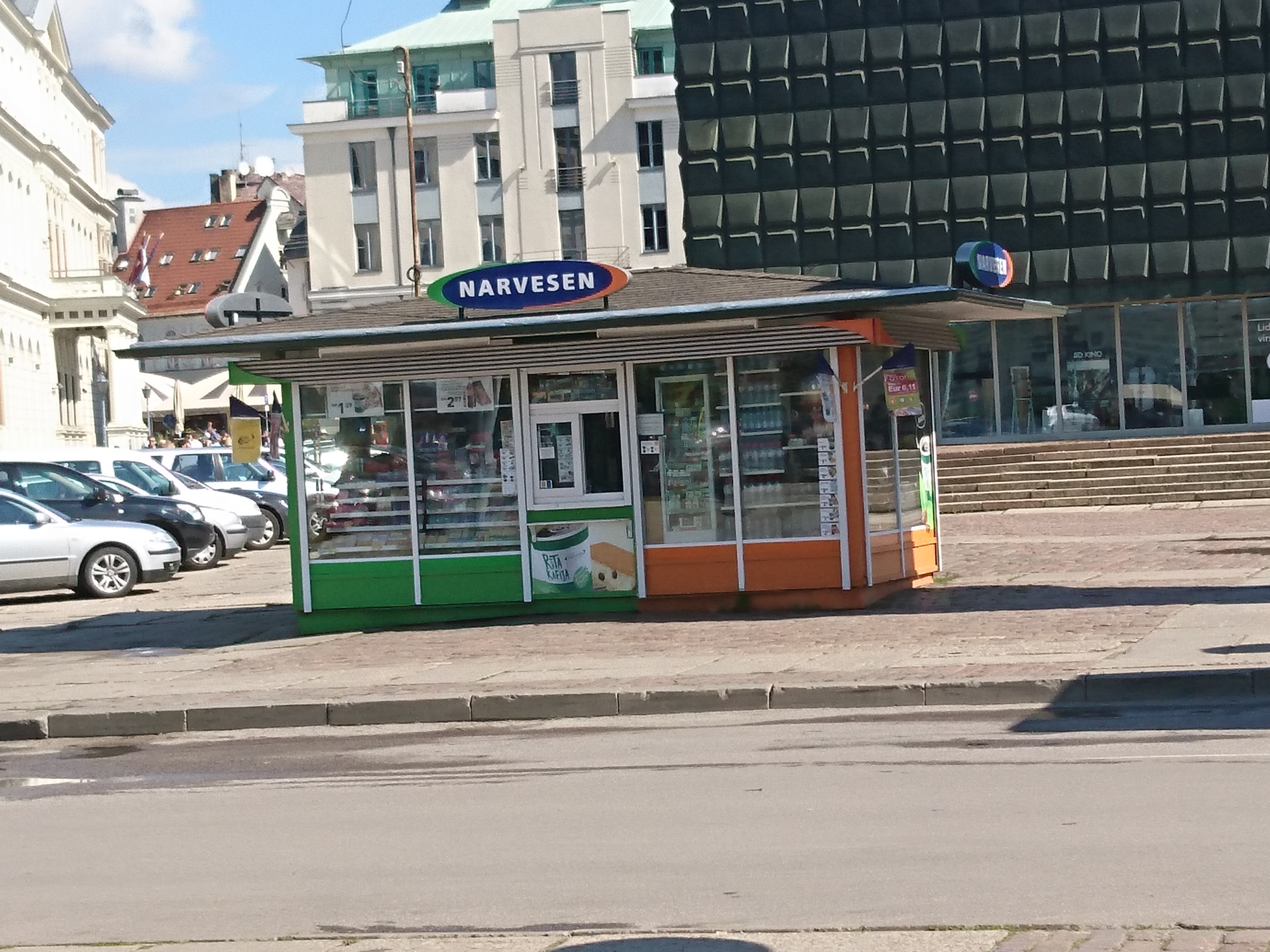 Narvesen in Riga, Latvia.